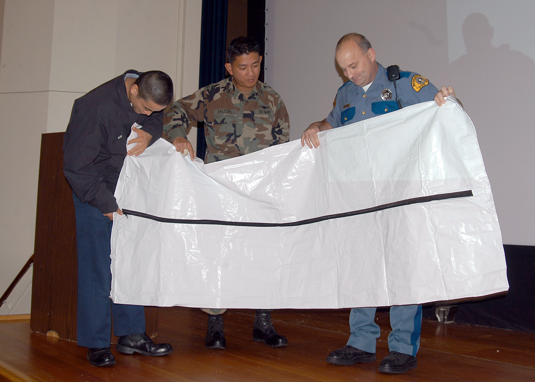 Whidbey Island, Wash. (Nov 21, 2006) - Washington State Trooper, David Martin, displays a body bag to (left), Culinary Specialist 3rd Class Hawk Ivie, and Electrician's Mate 1st Class Marcus Falcon. Trooper Martin visited the Naval Air Station to give a presentation on safe driving during the holiday season.